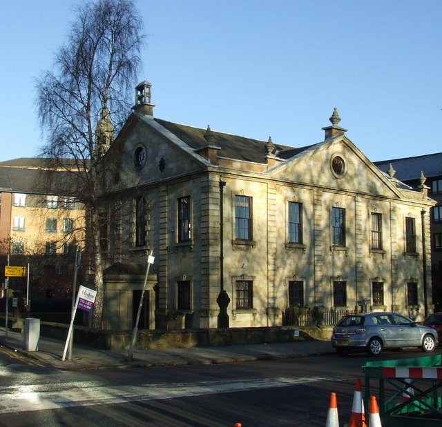 Former St. Andrew's by the Green church Overlooking Glasgow Green. Now head office of Glasgow Association for Mental Health. Follow this for more information, including details of the history of the building which was constructed in 1750.